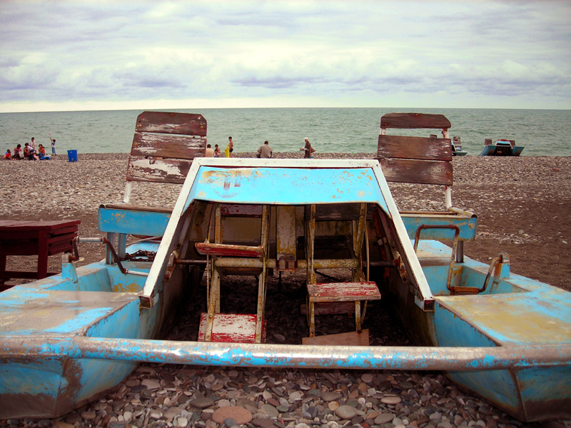 For rent, I'm sure, lay a clapped out paddleboat on the black sand and rock beaches of Batumi. Flash fixed the undercarriage while Photoshop fixed the sky.